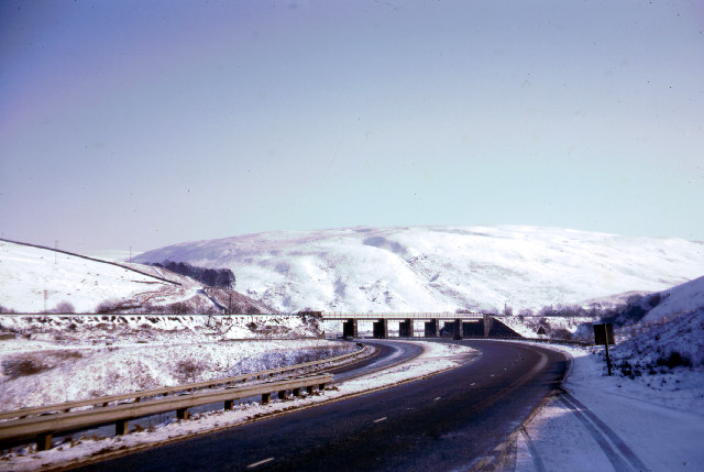 A74 North of Moffat. Since this picture was taken, the railway has been electrified, the A74 has been rebuilt as a motorway east of the railway and this road reduced to a single carriageway. (looking SE)